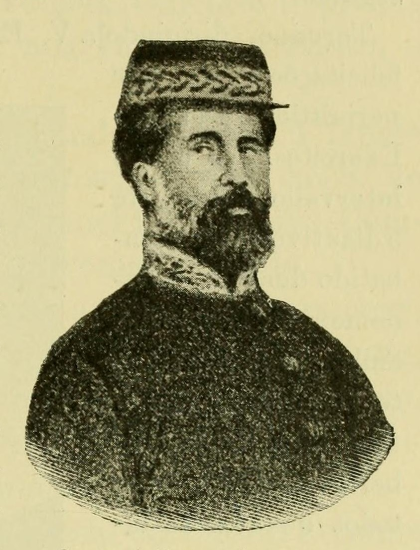 João Manuel Mena Barreto during the Paraguayan War